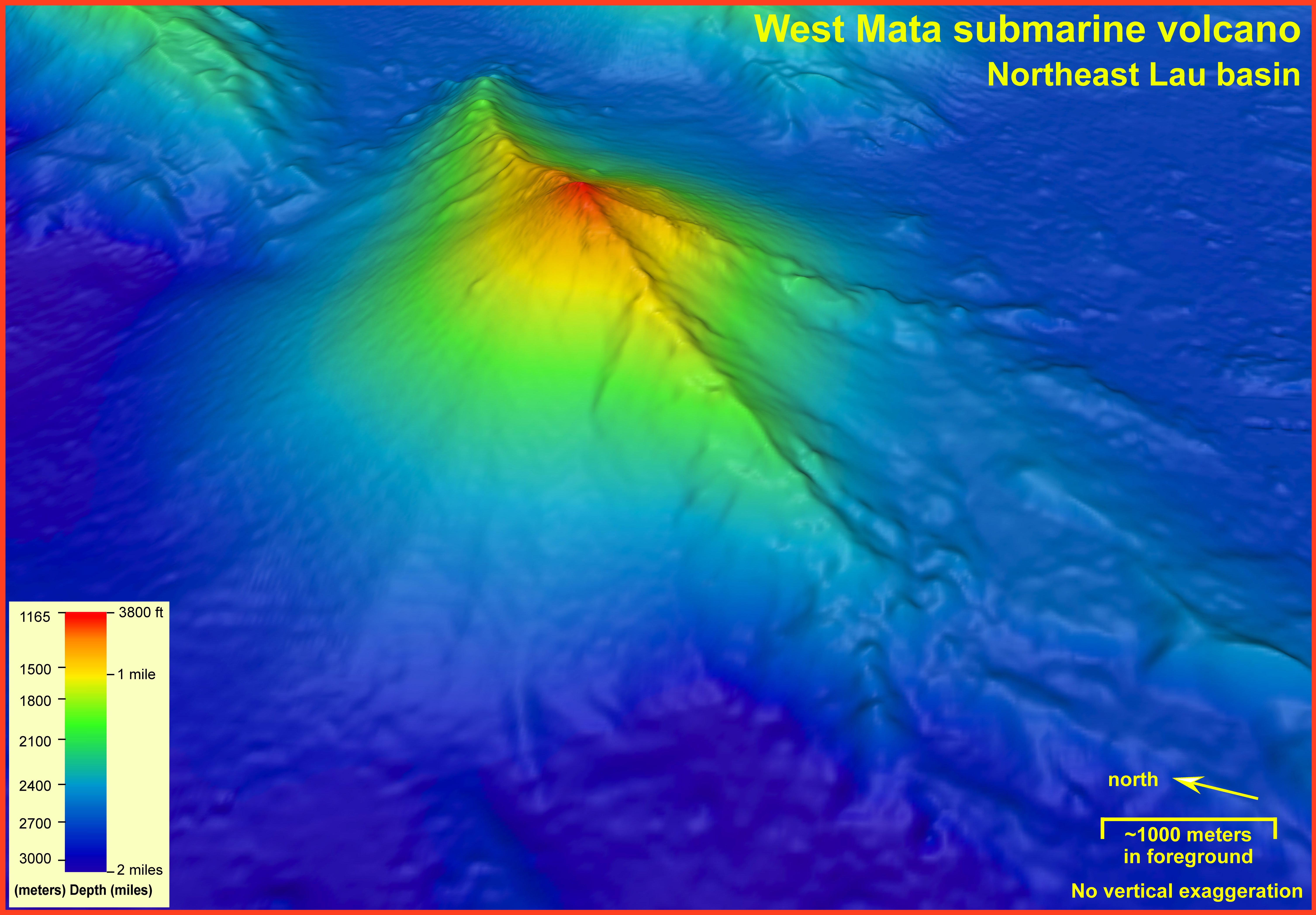 The summit of the West Mata Volcano is nearly a mile below the ocean surface (1165 meters / 3882 feet), and the base descends to nearly two miles (3000 meters / 9842 feet) deep. The eruptive activity occurred at several places along the summit, in an area approximately the length of a football field. The volcano has a six-mile long rift zone running along its spine from SW to NE. Pacific Ocean, Northeast Lau Basin, Fiji area.